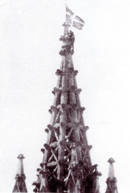 Ikurrina and Joseba Elosegi, Cathedral of the Good Shepherd of Donostia-San Sebastian, Basque Country, 1946.